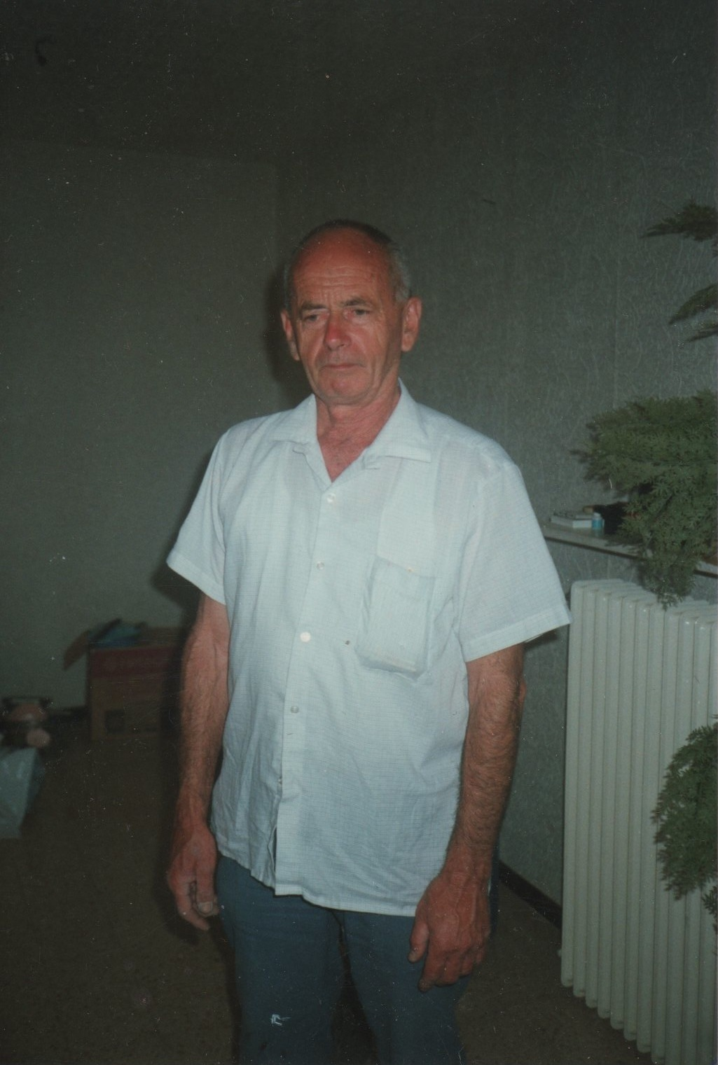 A photograph of David Sabo, also known as "David ha-menagen"